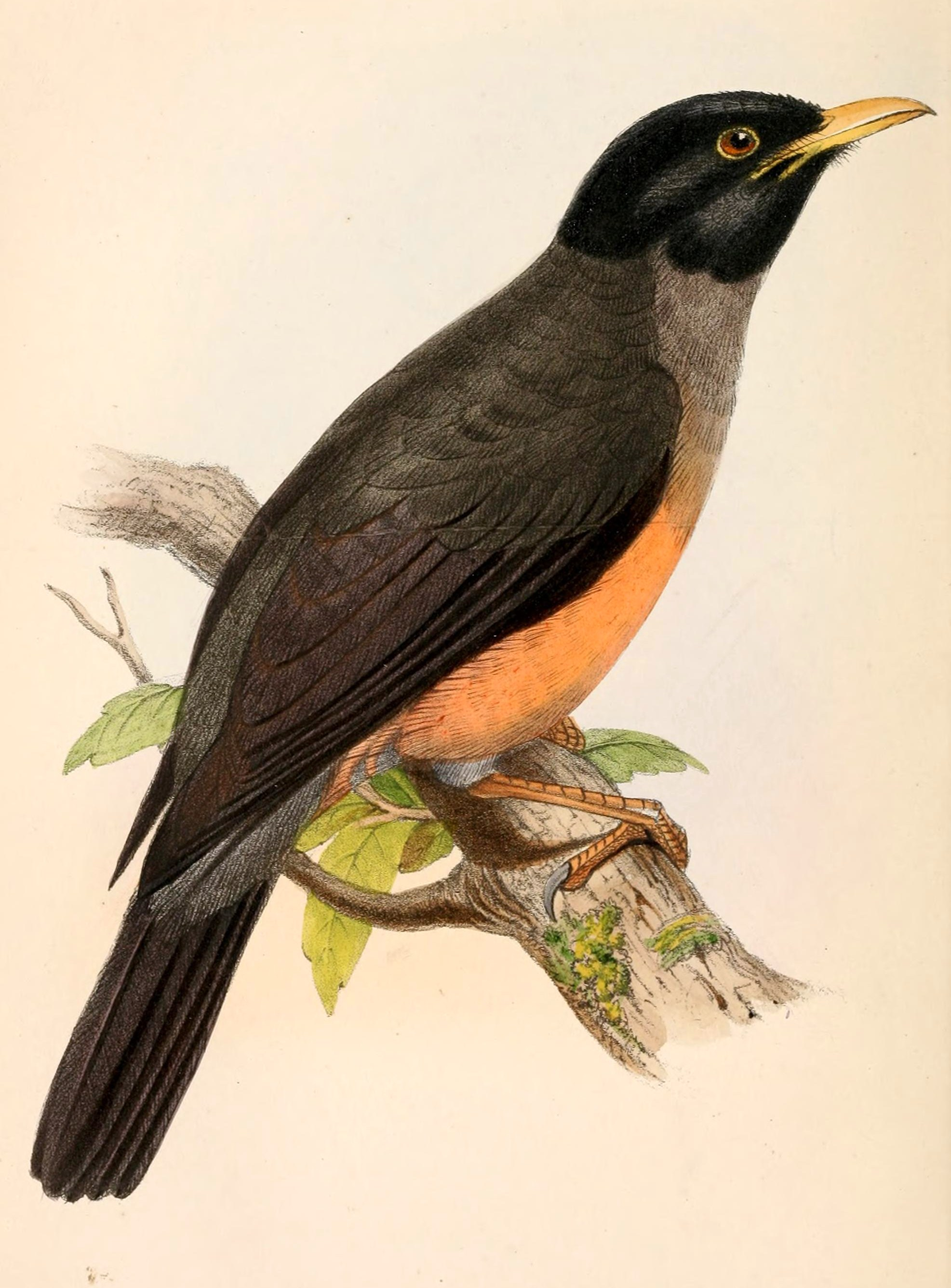 « Turdus fulviventris » = Turdus fulviventris (Chestnut-bellied Thrush)